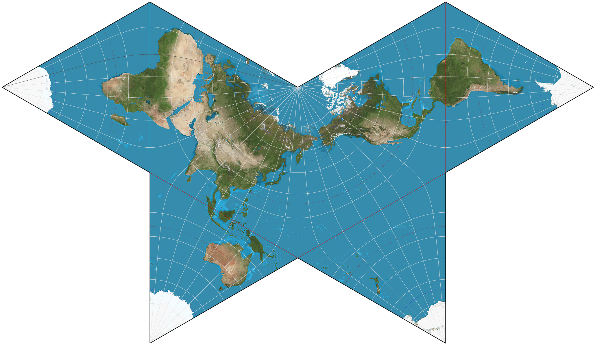 Cahill conformal butterfly projection. 15° graticule, 157°30′E central meridian. Imagery is a derivative of NASA’s Blue Marble summer month composite with oceans lightened to enhance legibility and contrast. Image created with the Geocart map projection software.